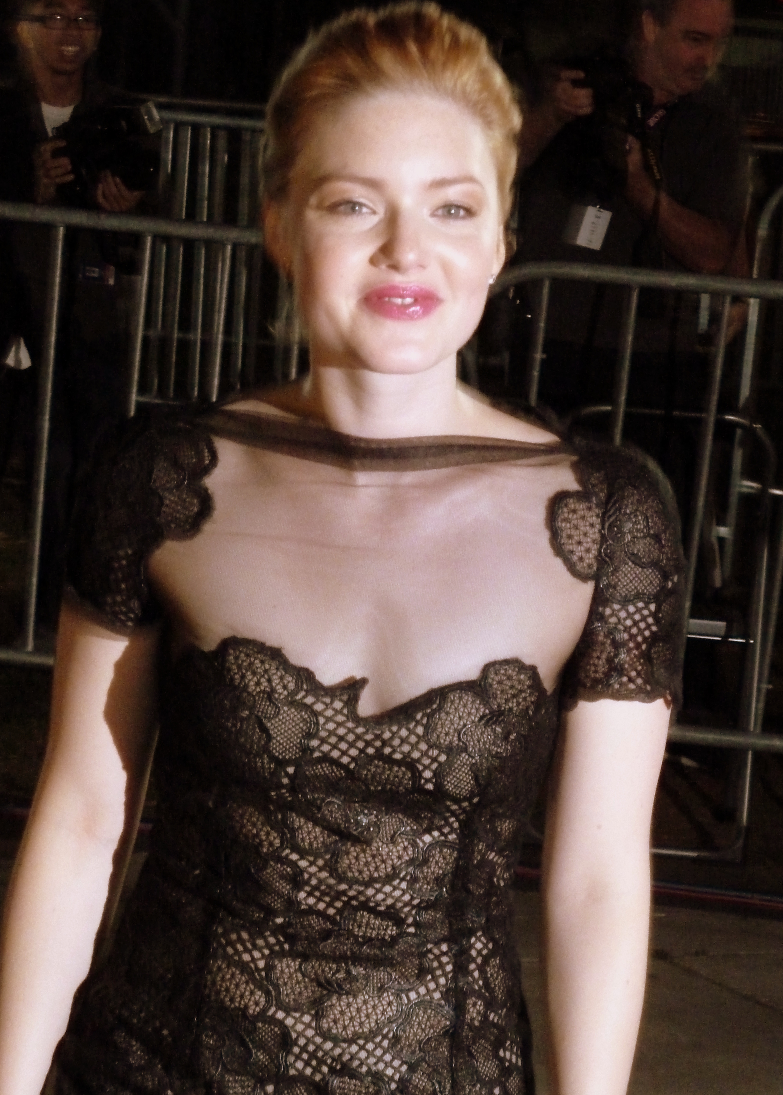 Holliday Grainger at the premiere of Great Expectations, Toronto Film Festival 2012